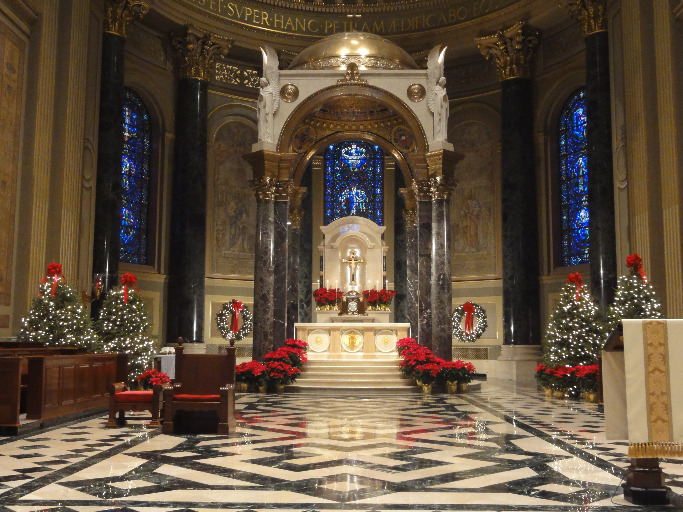 Cathedral of Saints Peter and Paul